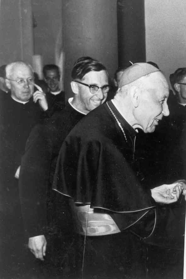 Cardinal augustin Bea at a meeting 1963